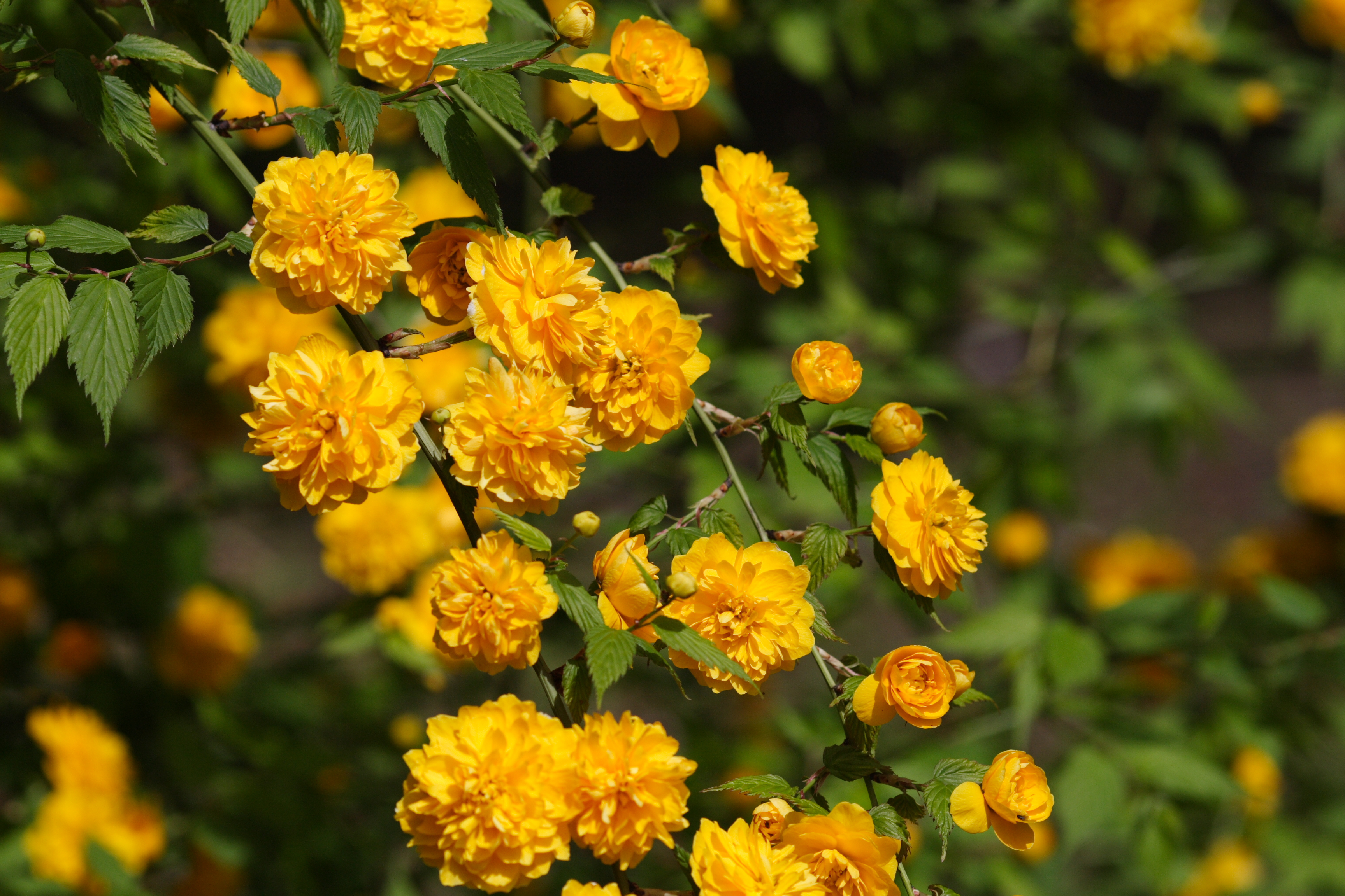 ヤマブキ(八重)天龍寺庭園にて撮影 / Kerria_japonica taken in the garden of Tenryūji